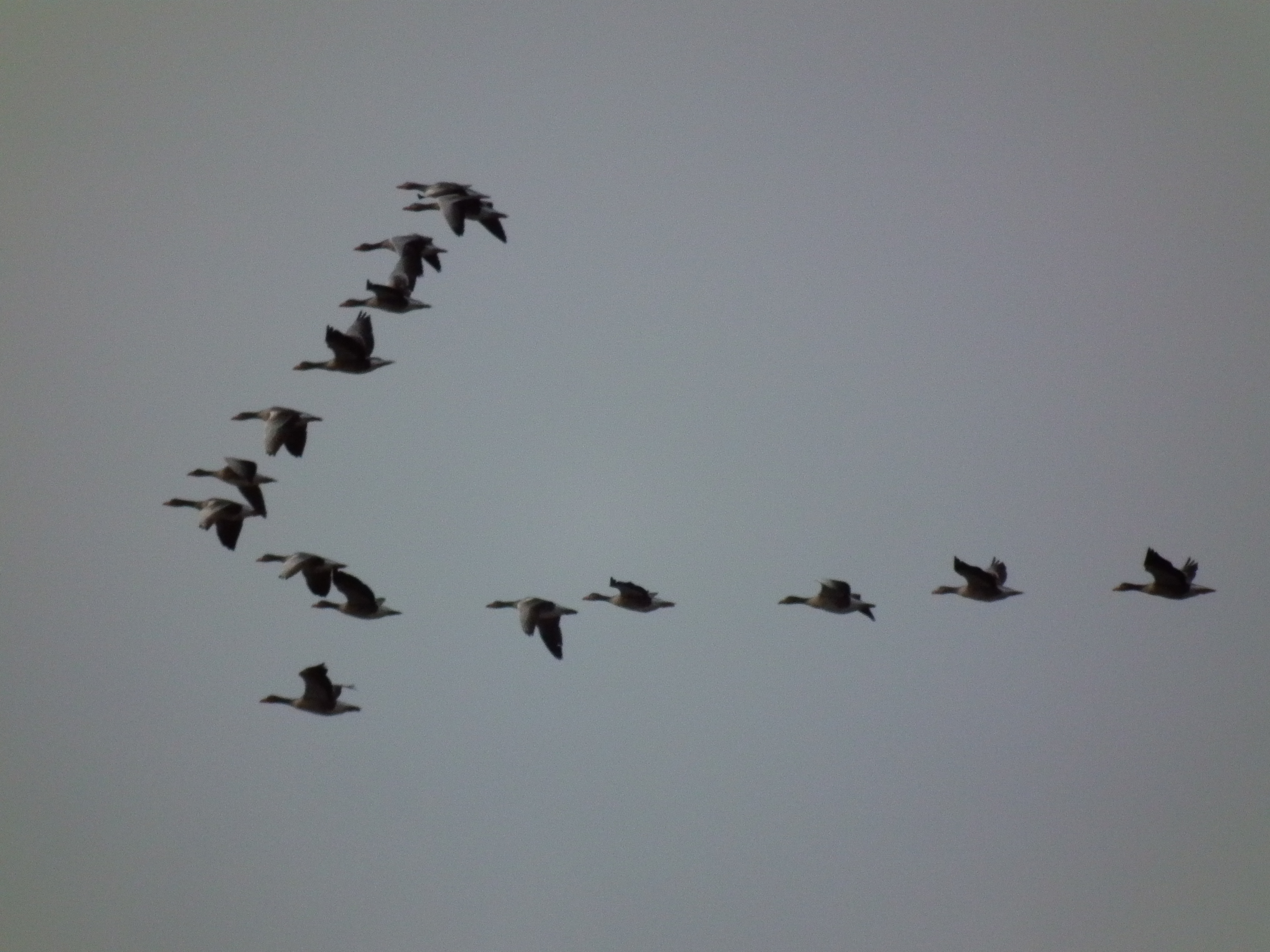 Anser anser cross the East Frisian North Sea island of Juist (Lower Saxony, Germany) }